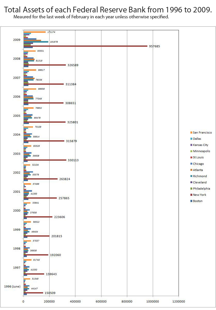 These are the total assets of the federal reserve banks starting in 1996, and ending in 2009. Unless otherwise specified (as in the year 1996), these figures were taken from , and are taken from the last week of each year's month of February. Done in Excel.